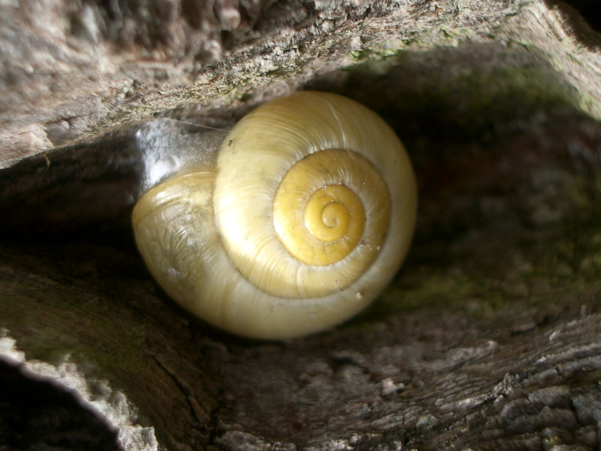 Description: Cepaea hortensis